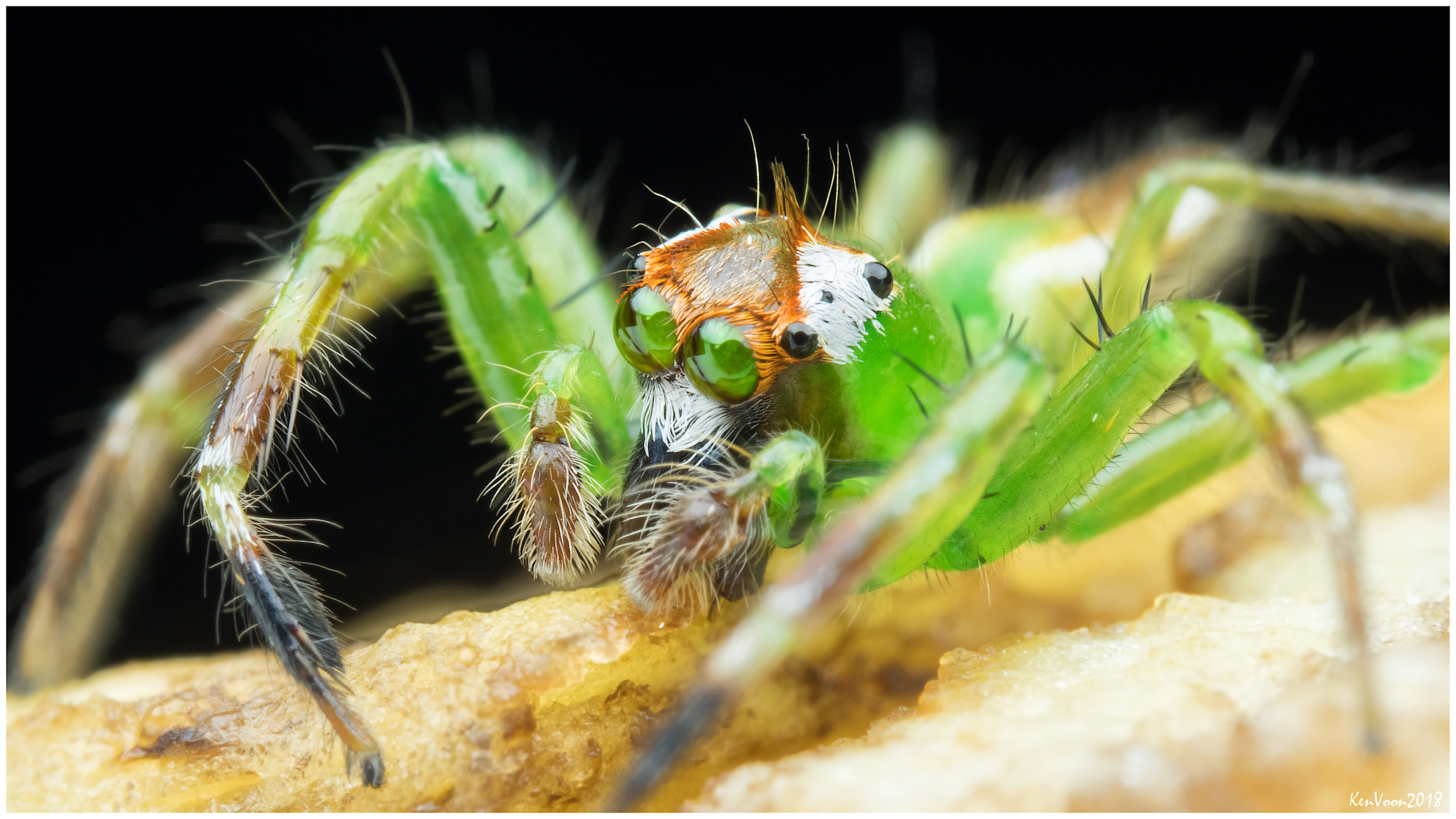 Side look